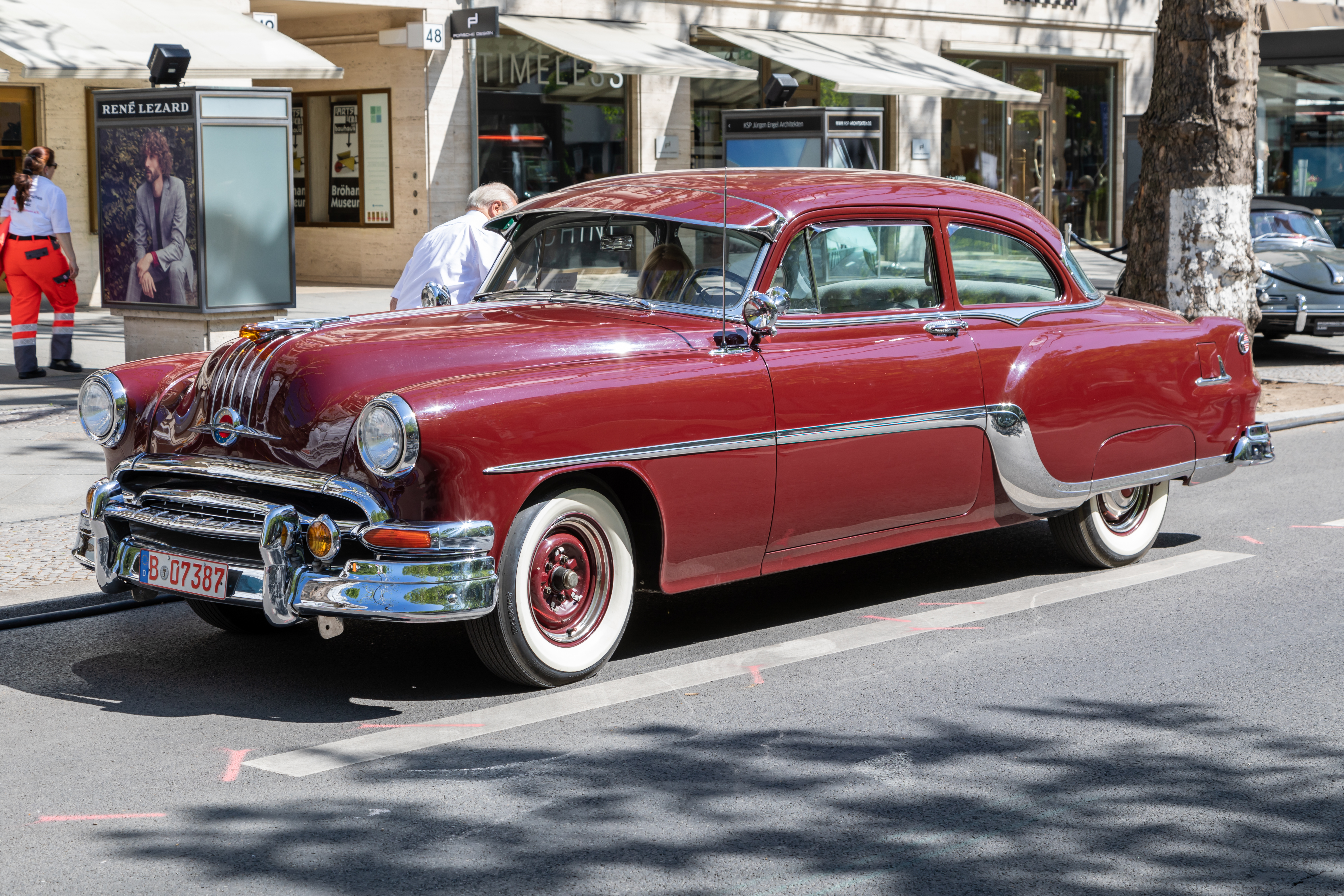 Classic Days Berlin 2019, Kurfürstendamm, Berlin-Charlottenburg